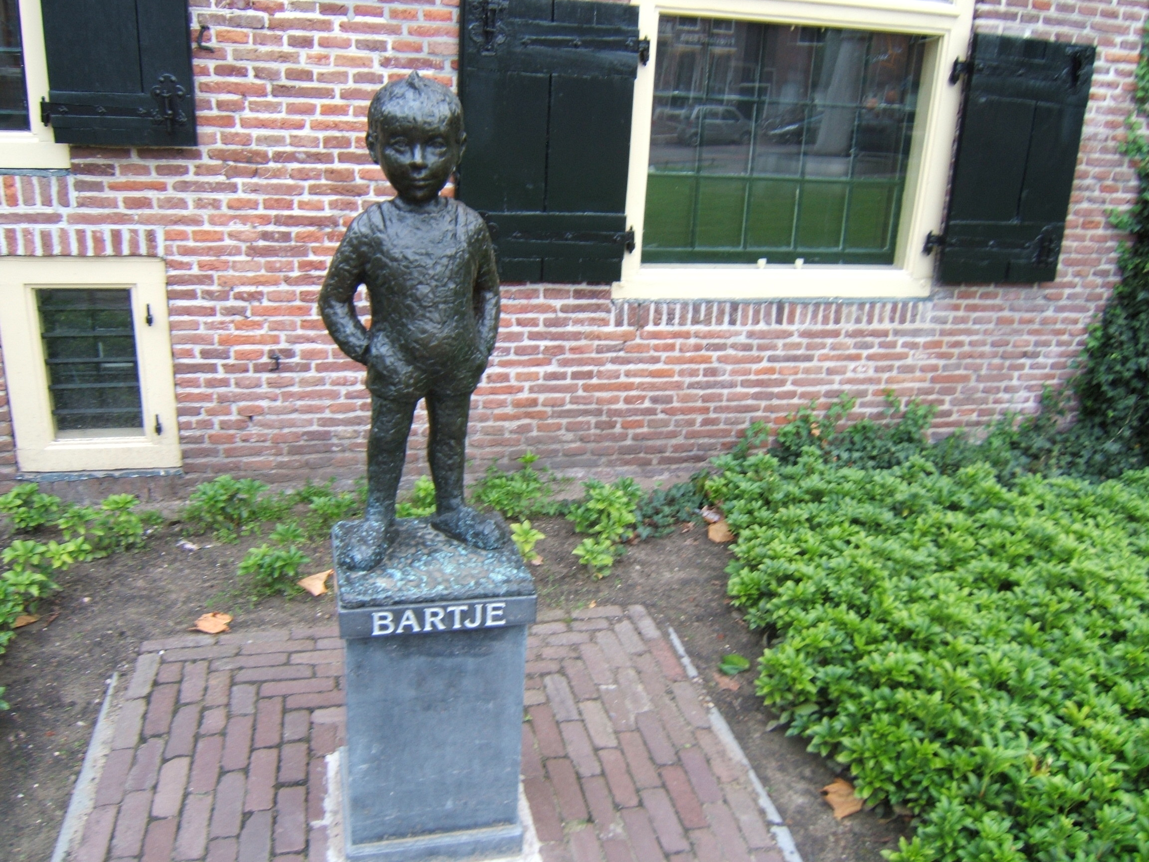 Sculpture "Bartje" in Assen/The Netherlands